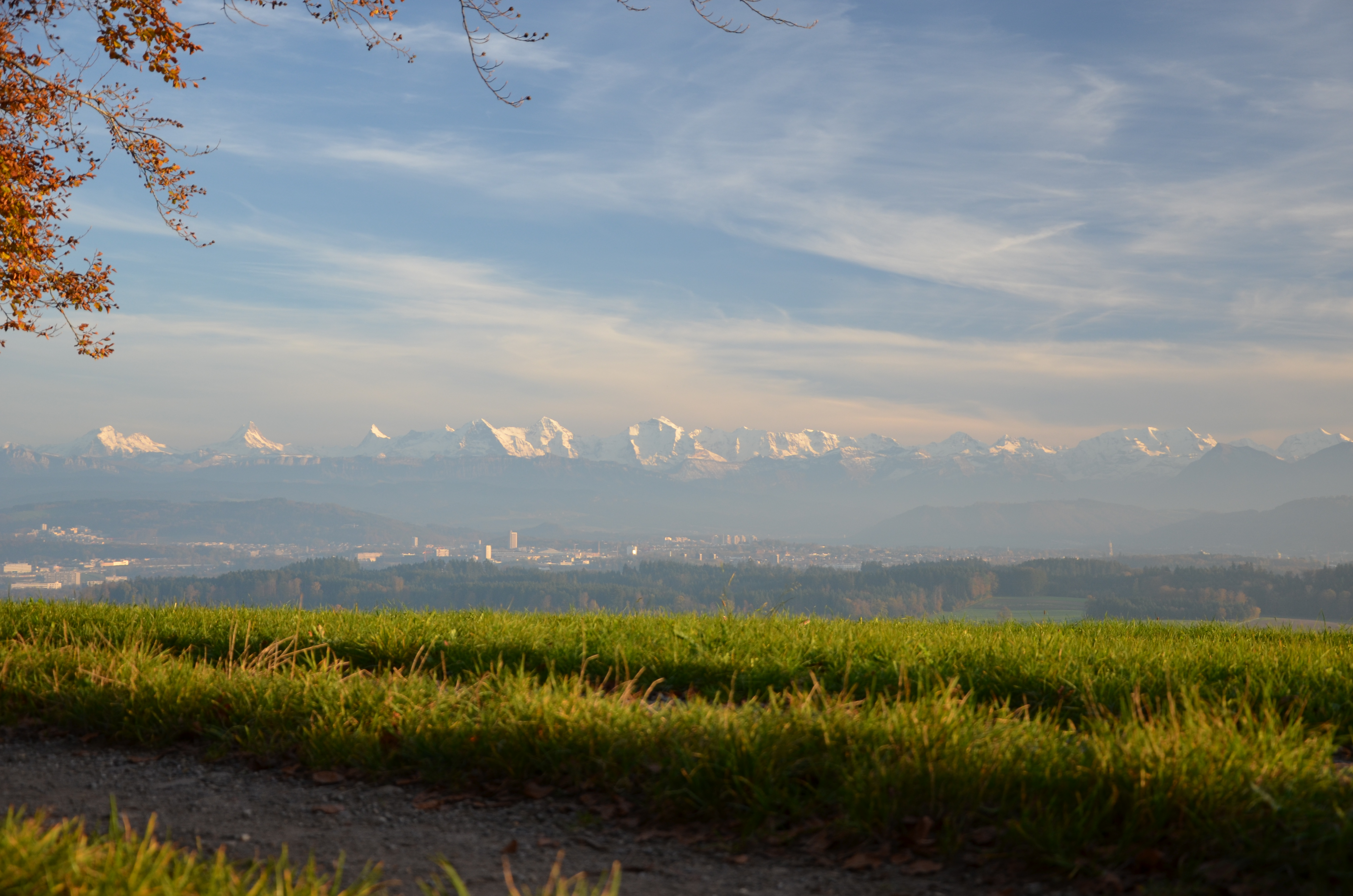 Bernese Alps as viewed from above Kirchlindach